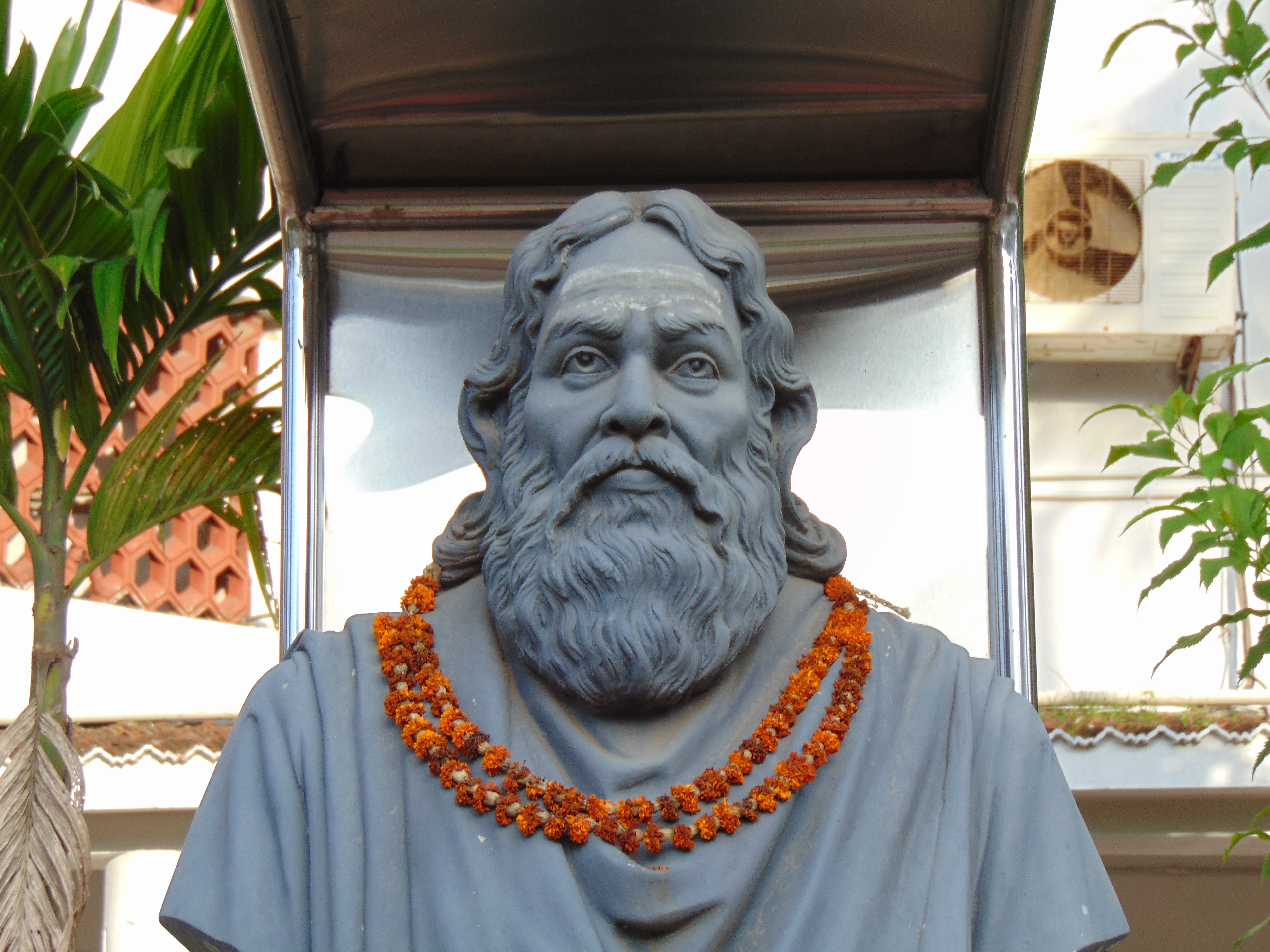 Poet Sarala Dasa's statue in front of Sarala Bhaban, Cuttack.